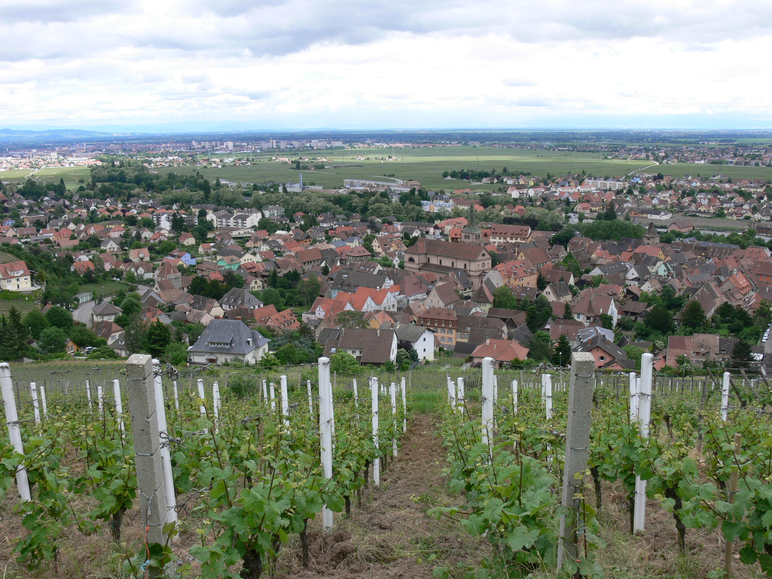 Turckheim im Elsass 2006 selbstfotographiert (Man-ucommons) Panasonic Lumix FZ-30